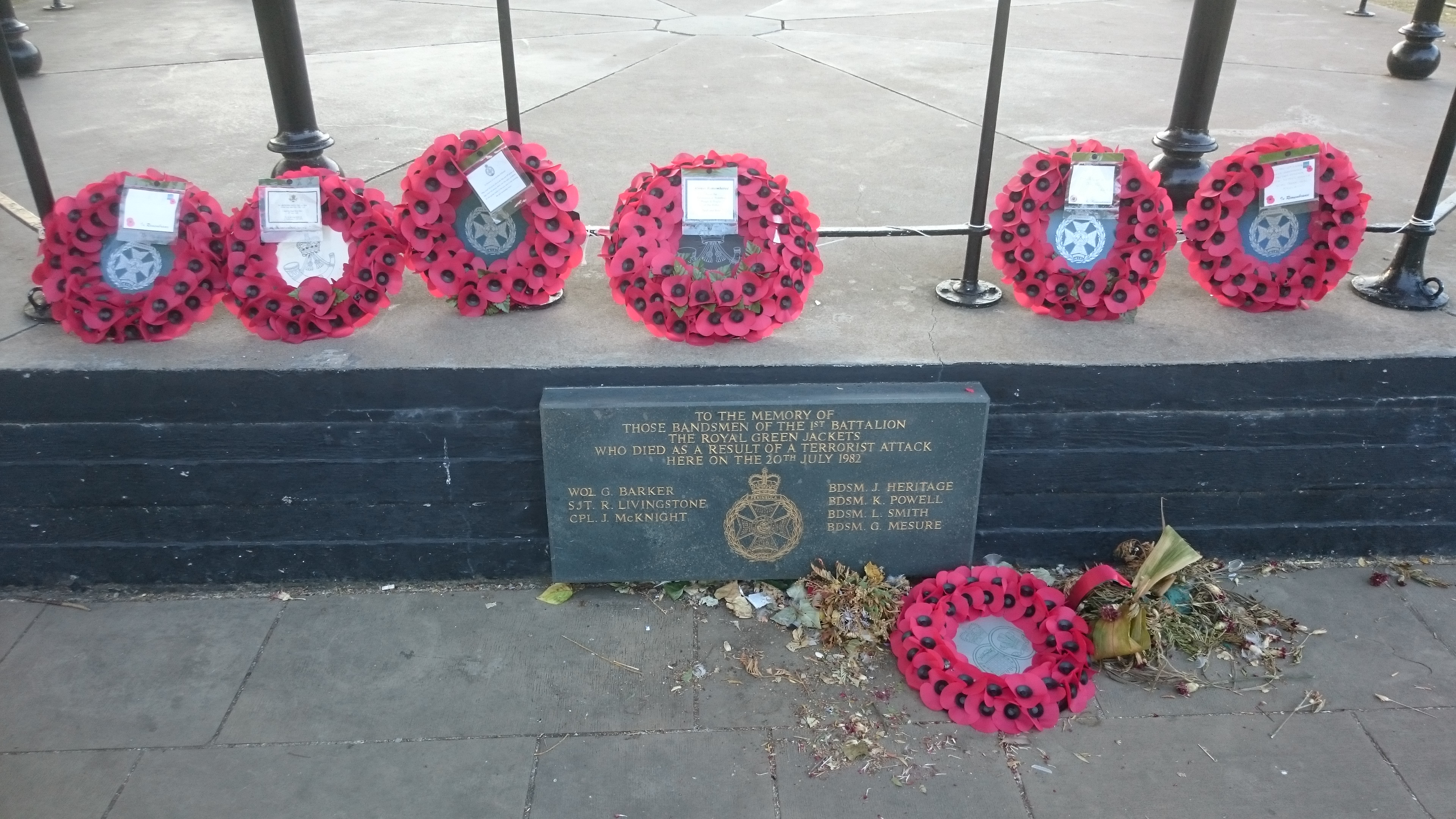 Memorial to soldiers killed in Regent's Park in 1982 bombing